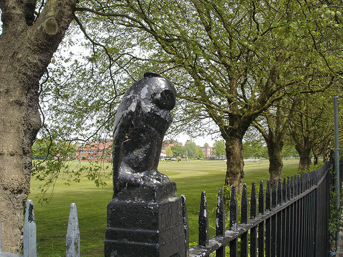 Manchester Grammar School. Owls are perched on every post along the playing fields fence.